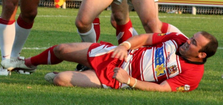 Piggy Riddell